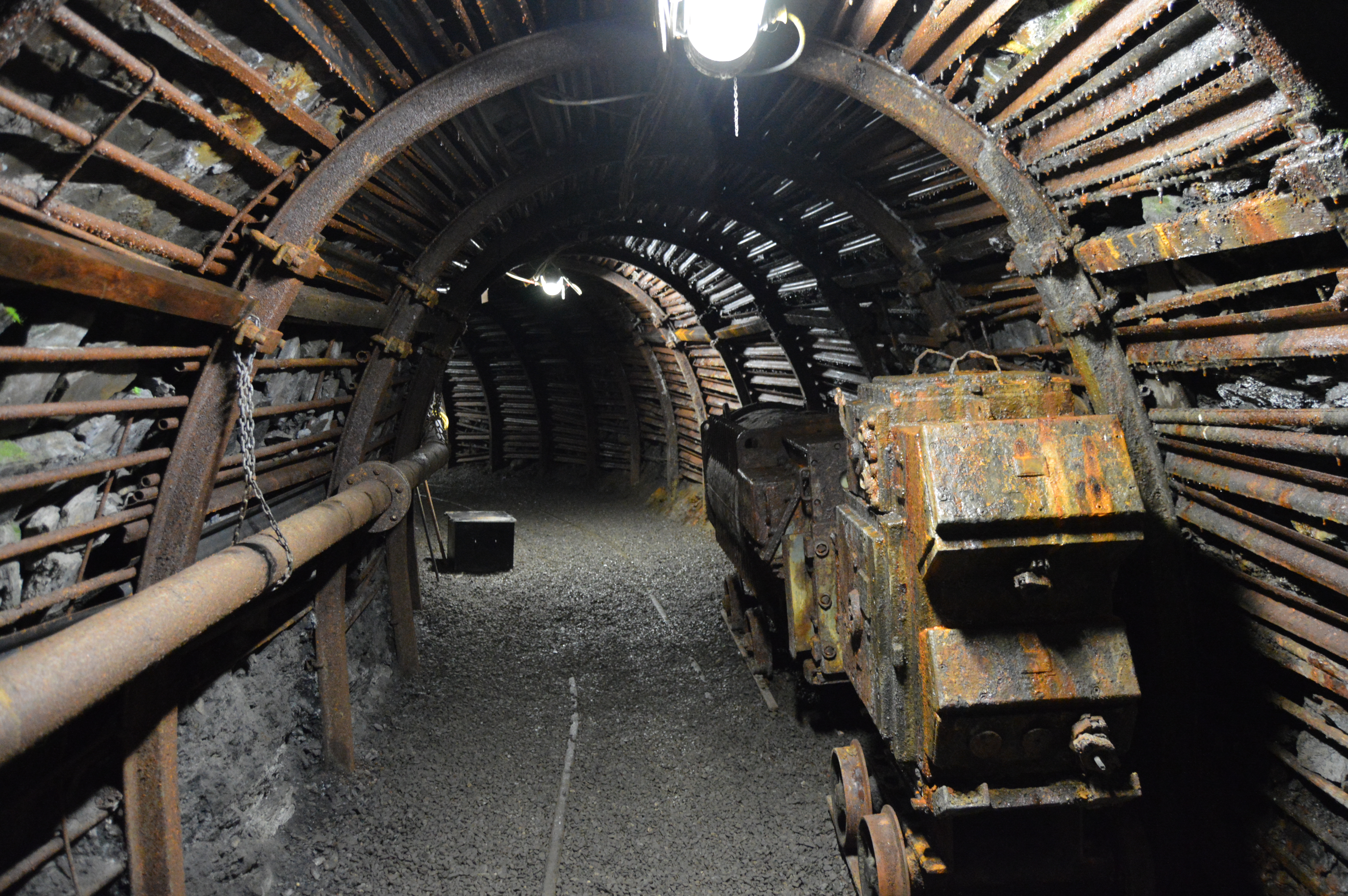 Ancient mine gallery of the Argenteau coal mine ("Blegny-Mine", UNESCO) in Blegny, Belgium